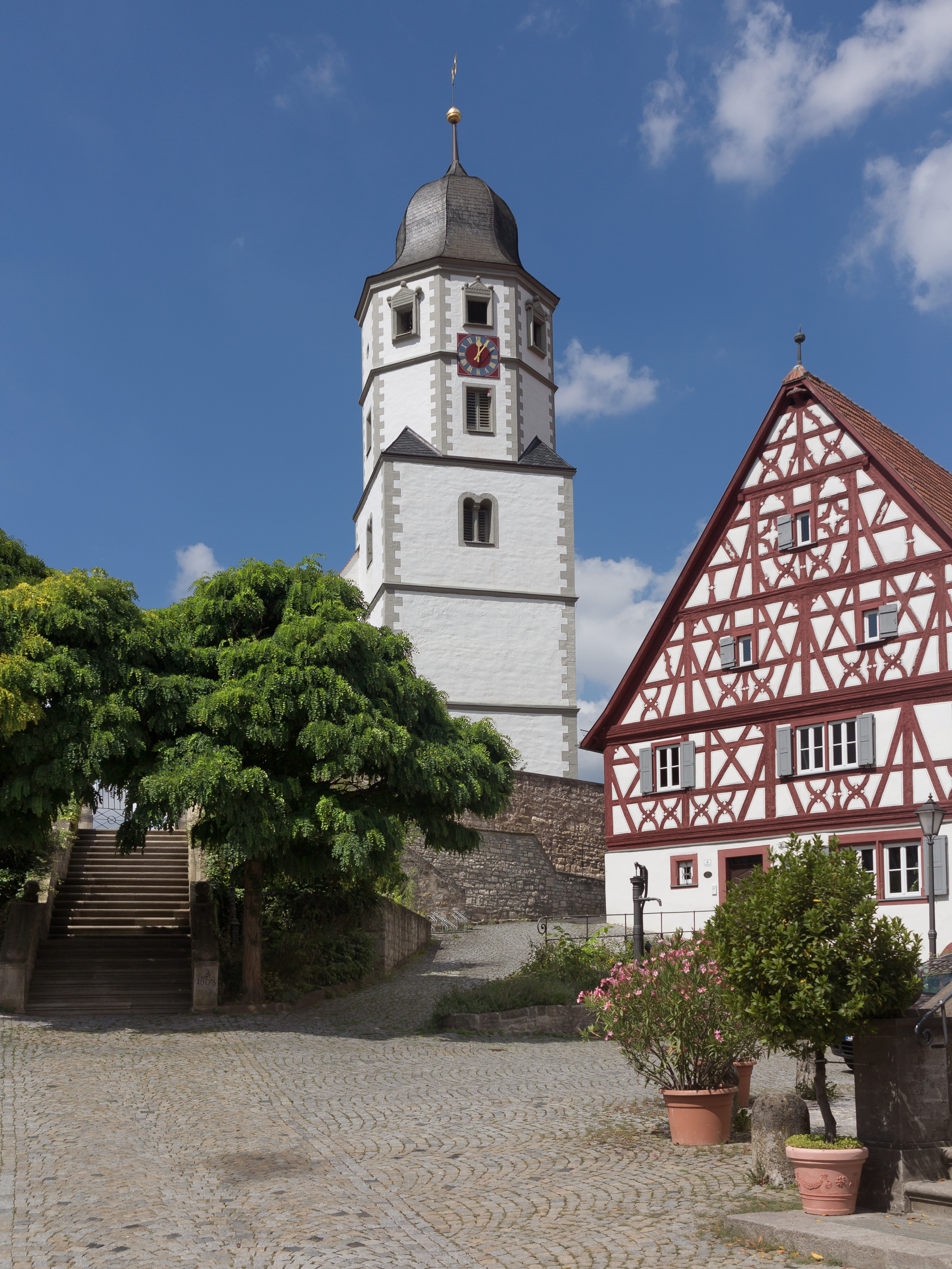 Winterhausen, chapel: die ehemalige NikolauskapelleThis is a photograph of an architectural monument.